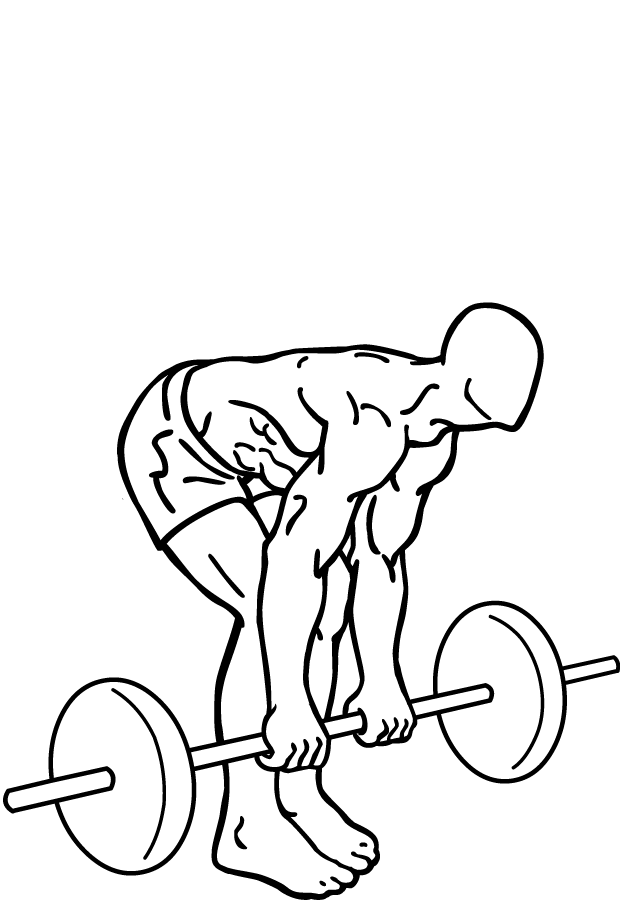 an exercise of hip and thigh